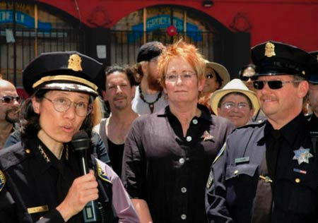 On hand to commemorate the Compton Cafeteria Riots were Chief Heather Fong (left), the first SFPD female chief of police; Theresa Sparks (center), first ever transgender police commissioner; and Sgt. Stephan Thorne, the first transgender SFPD police officer.